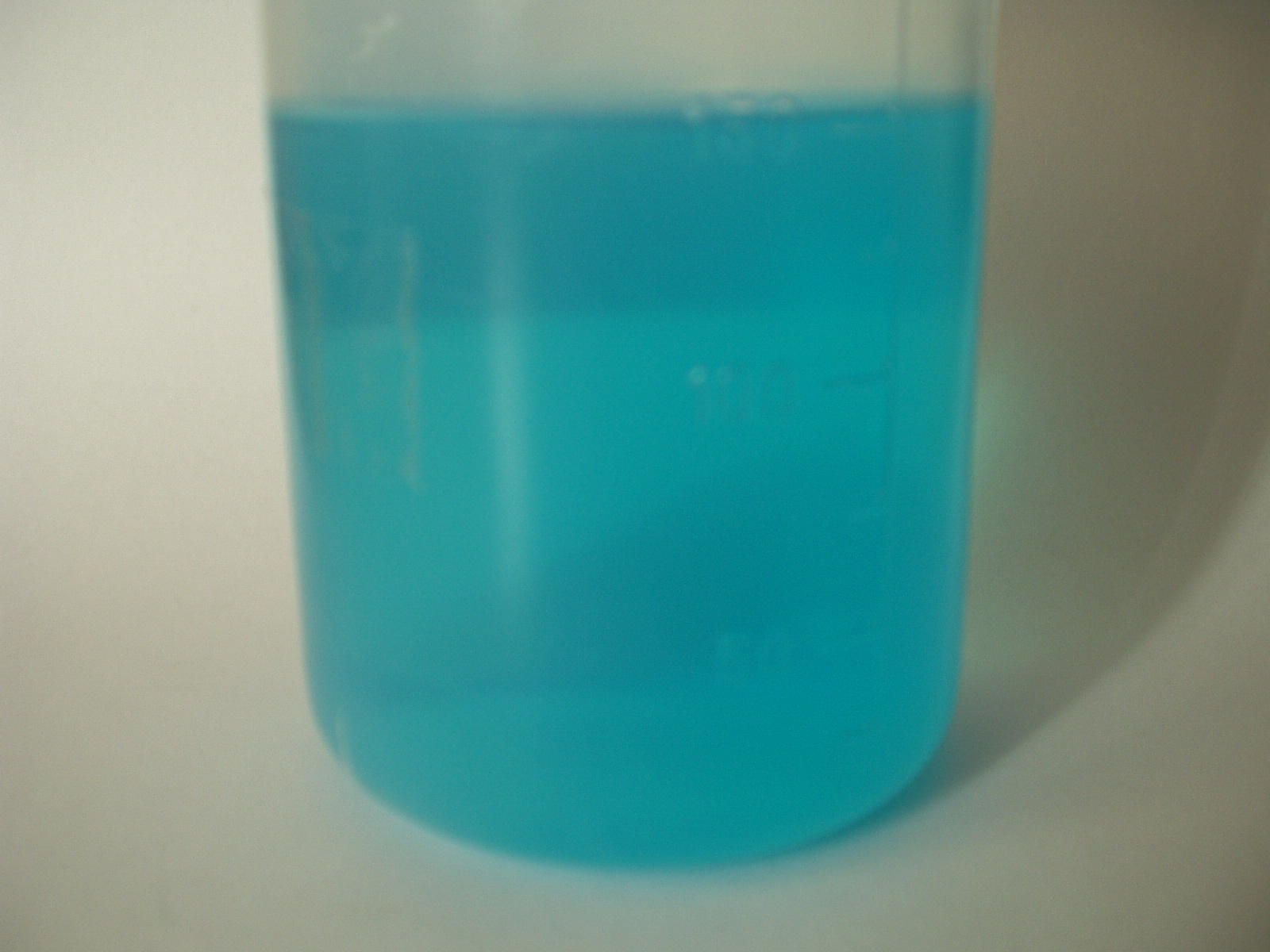 A photo of a copper(II) sulphate diluite solution, it's an own work. Created on 18th August 2006. I'm the author of this file.